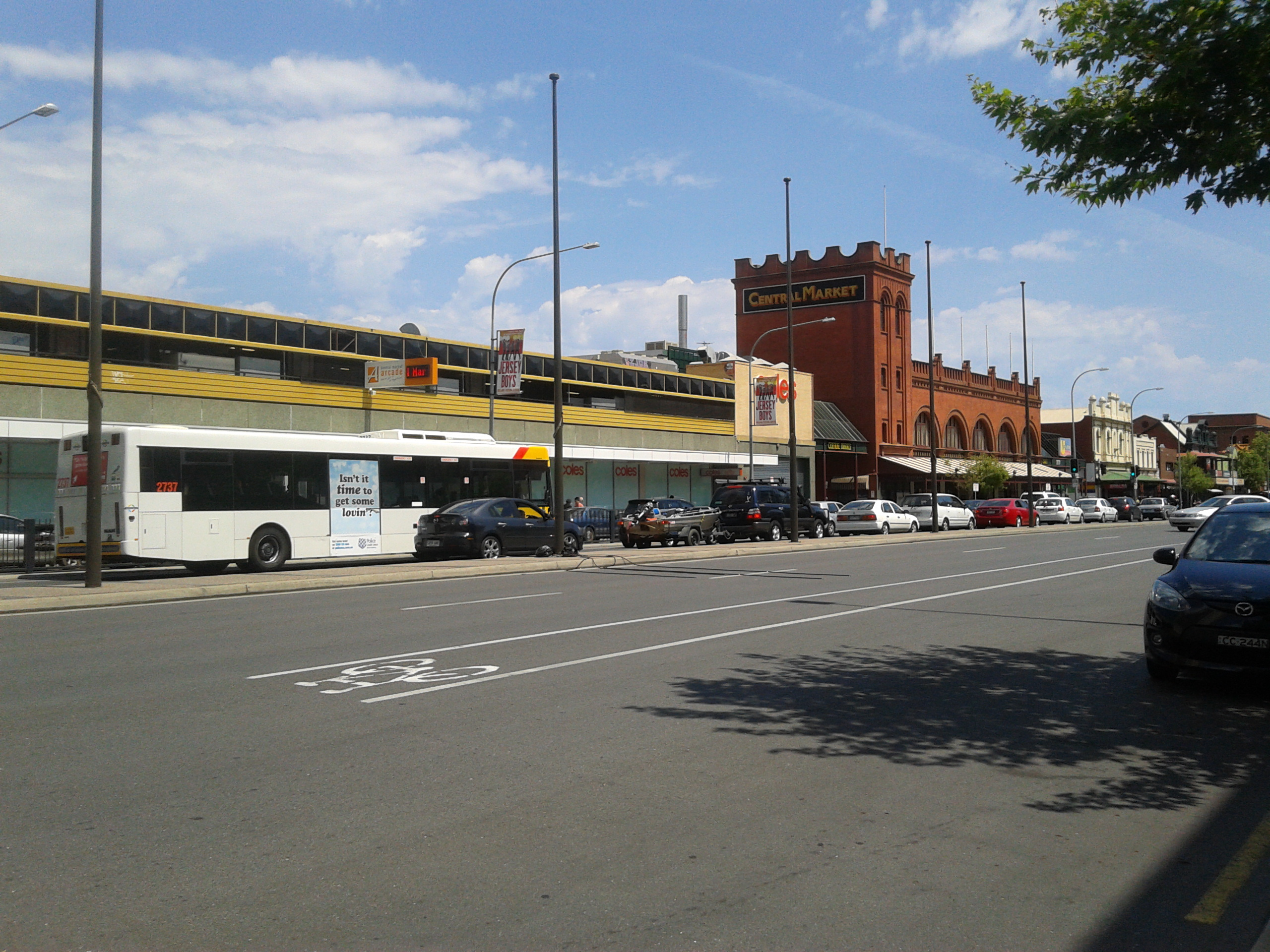 Grote Street outside Central Market.